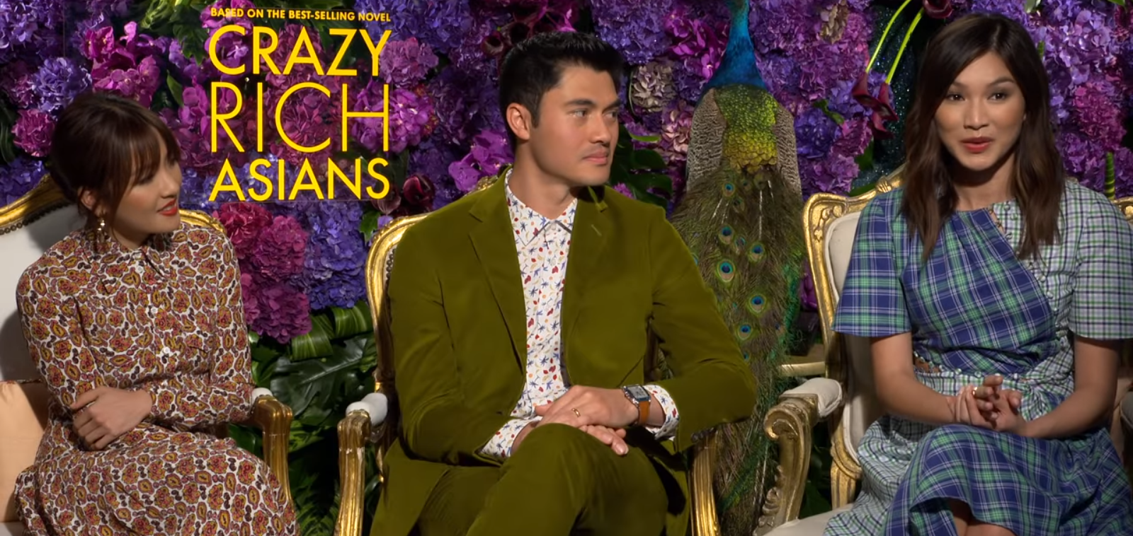 Constance Wu, Henry Golding, Gemma Chan, Ken Jeong and Awkwafina play a hilarious game of Never Have I Ever: CRAZY RICH Edition! Plus, they reveal they were MUGGED BY MONKEYS on set!